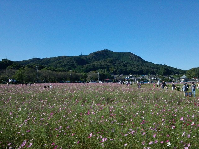 Mt. Hiwada, Hidaka city, Saitama pref, Japan. This photo was taken from the cosmos field in Kinchakuda.